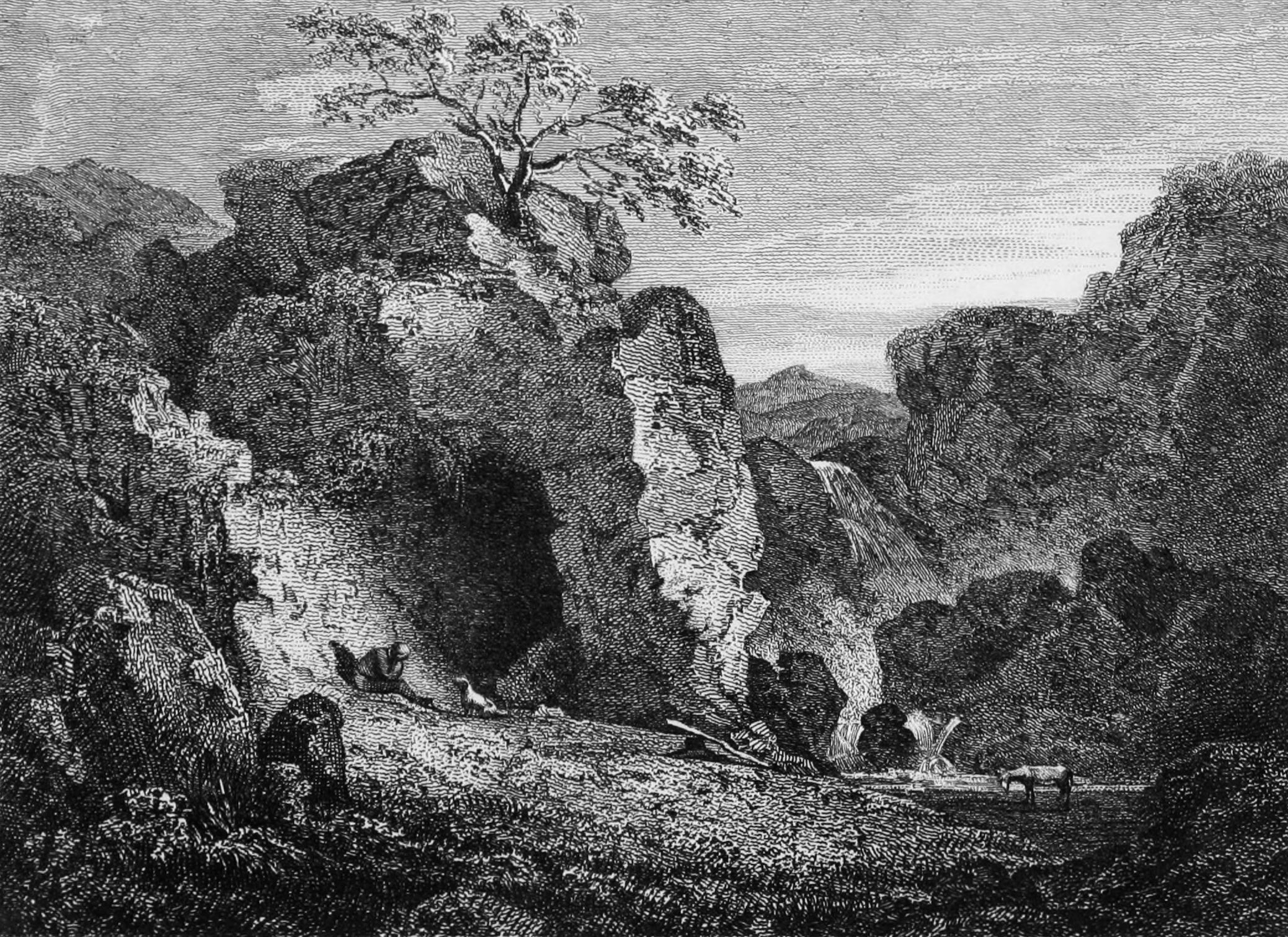 Peter Bell by Wordsworth 1st ed frontispiece illustration